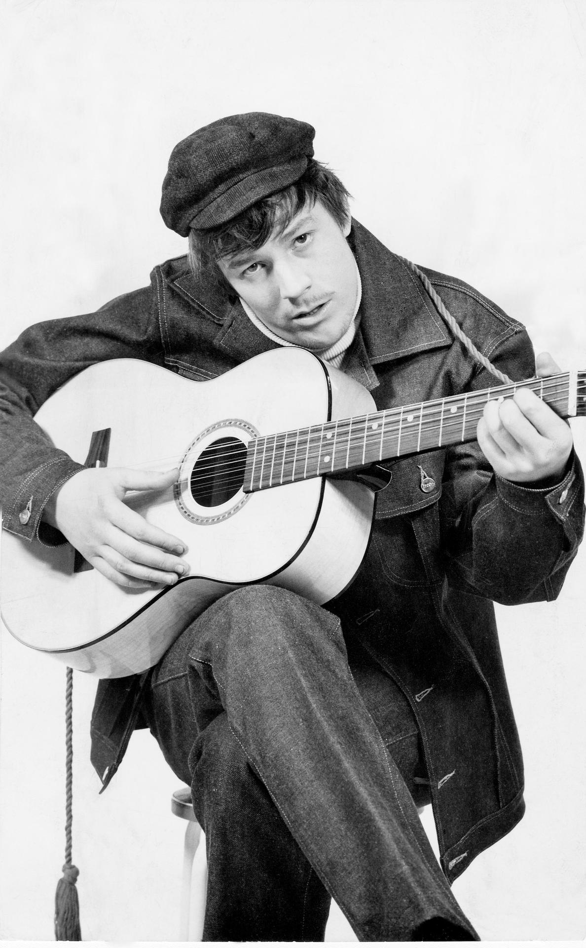 Publicity photograph of the Finnish singer Antti Hammarberg alias Irwin Goodman (1943–1991).